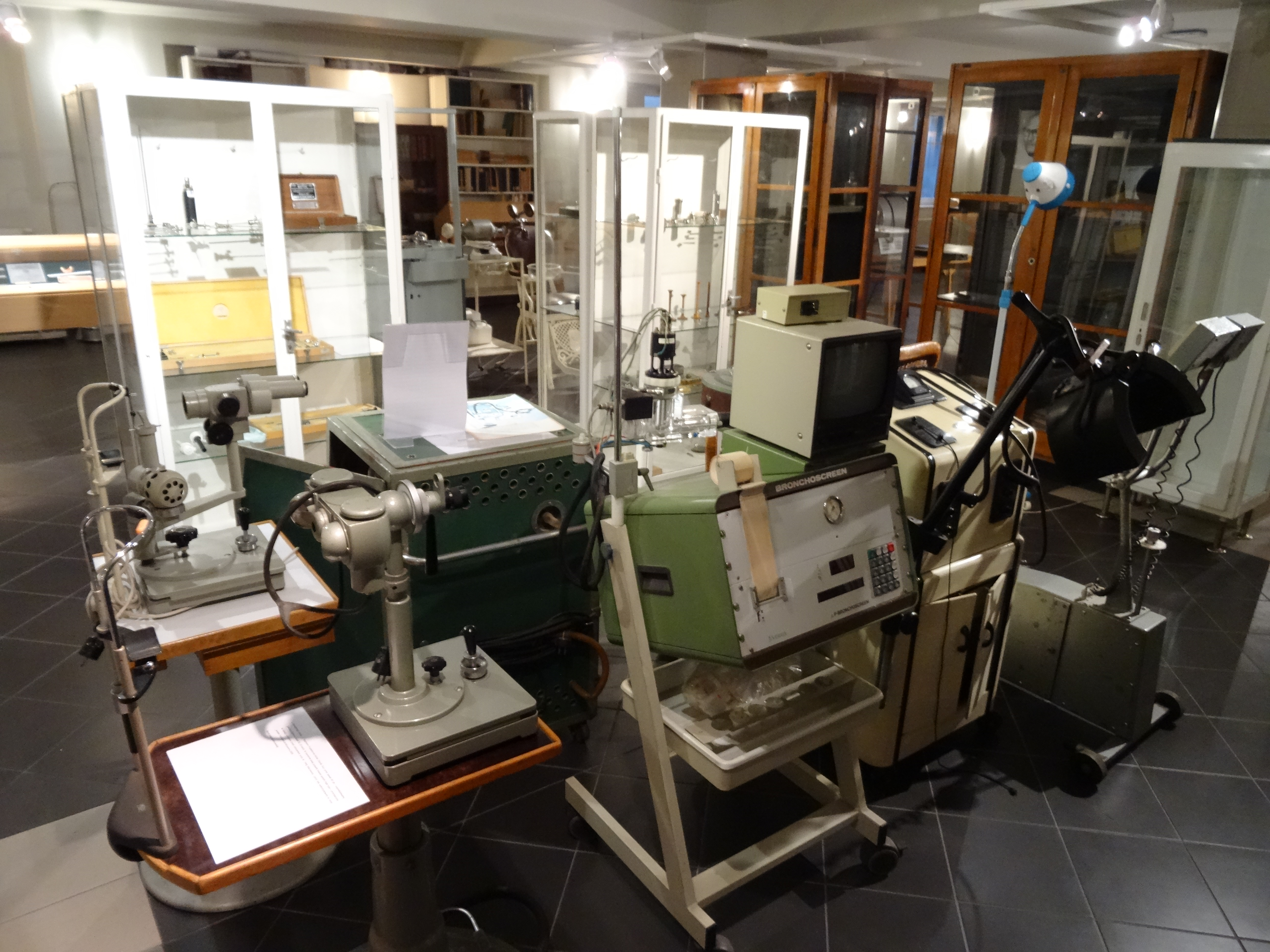 The Museum of the Medical University of Gdańsk.